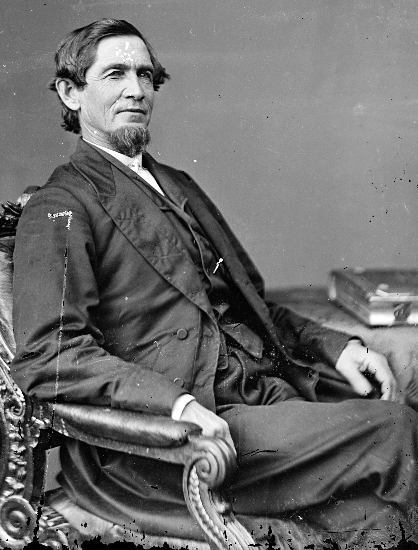 Isaac Roberts Hawkins, US Representative from Tennessee